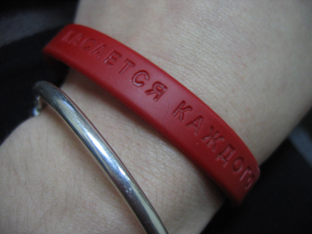 Photo by Court Sloger from Flickr Shows a plain metal band bracelet, and a Russian "StopSPID" silicone memory bracelet. Attribution-ShareAlike 2.0